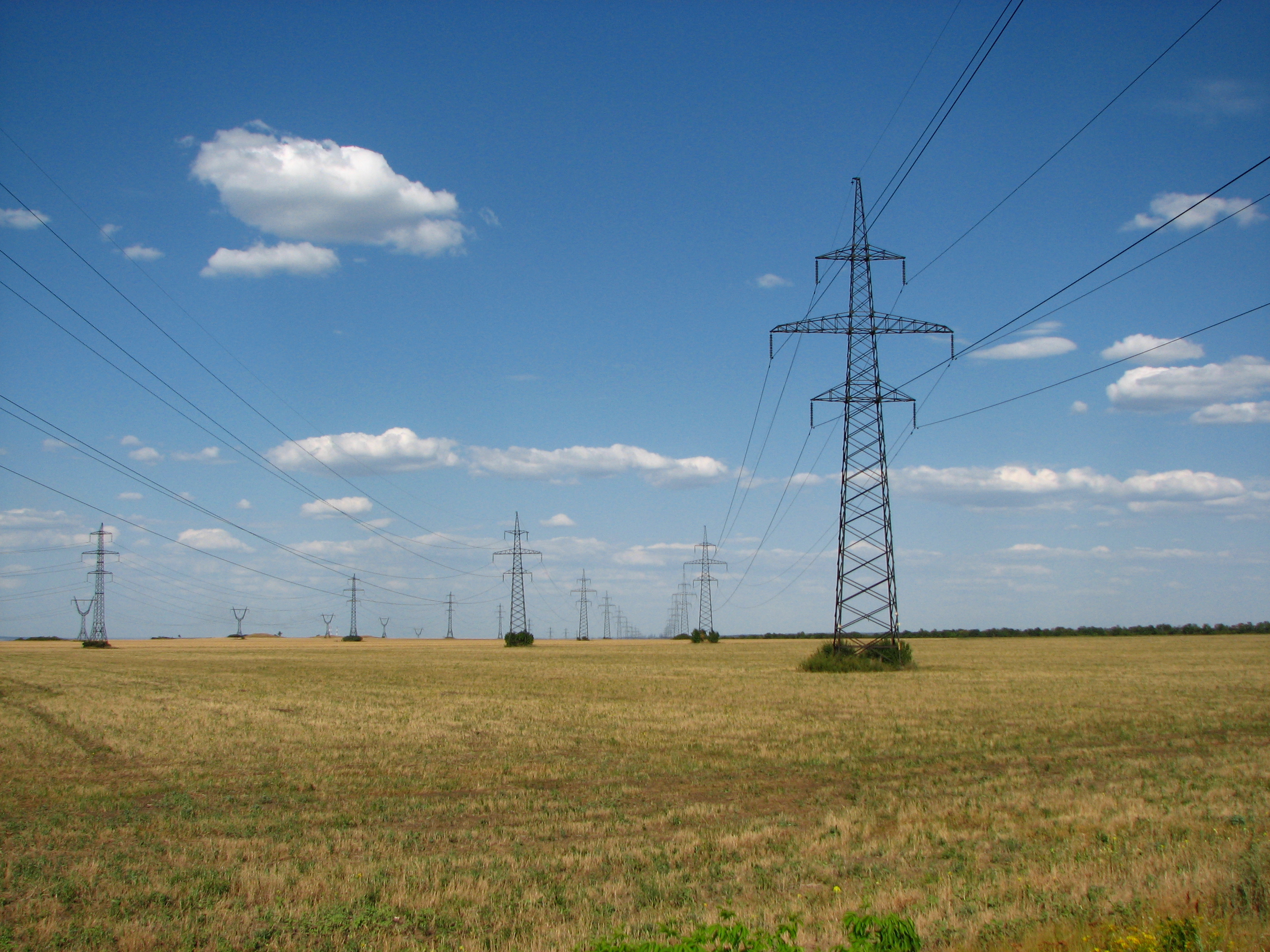 High-voltage power lines; Slov'yanoserbs'kyi district, Luhans'ka oblast, Ukraine